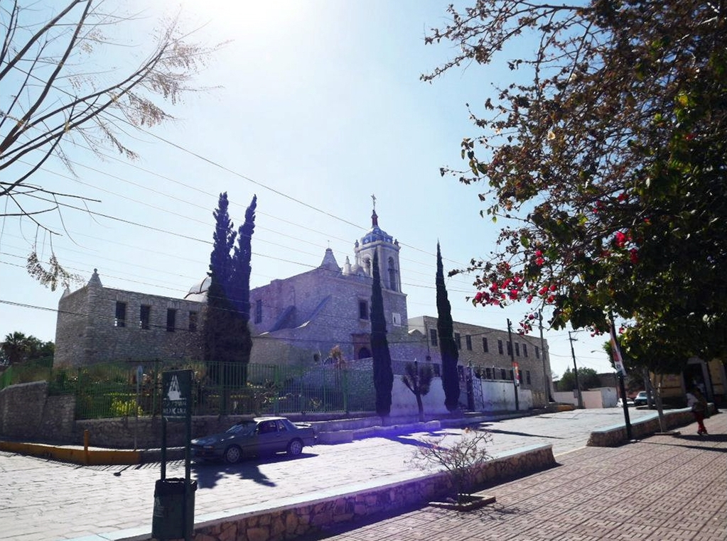 Lord of Tepezalá Shrine, Tepezalá, Aguascalientes State, Mexico